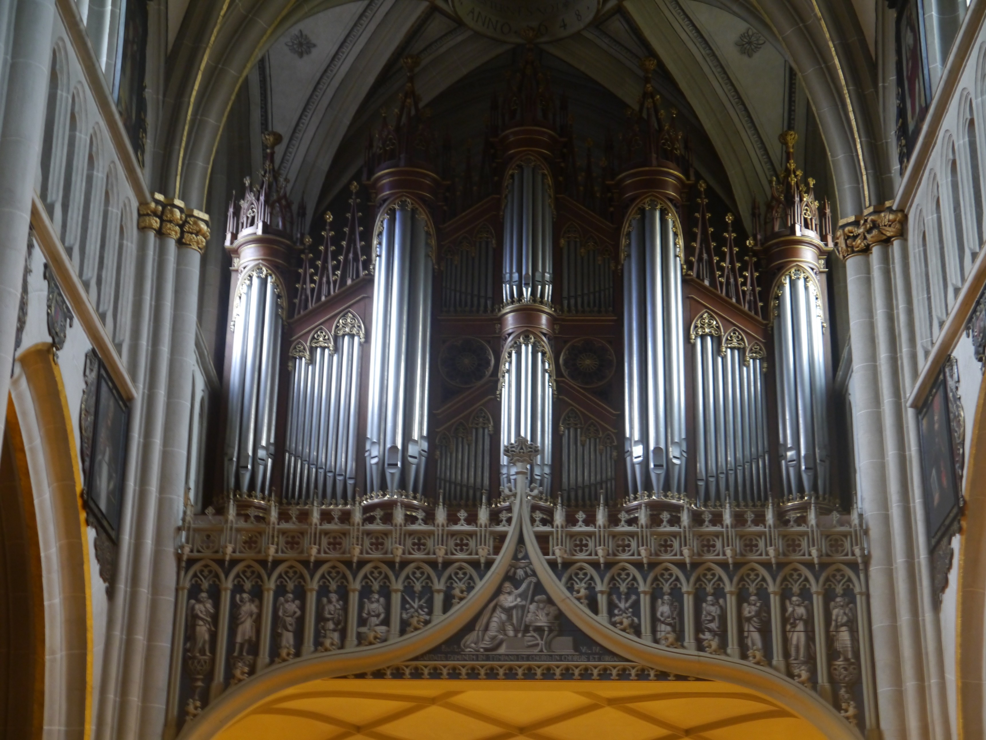 Organ of the Cathedral St. Nicolas, Fribourg, Canton of Fribourg, Western Switzerland